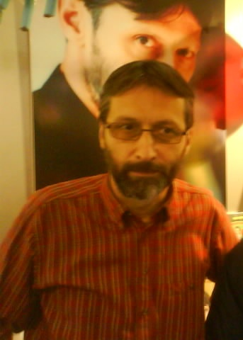 Croatian writer Miro Gavran